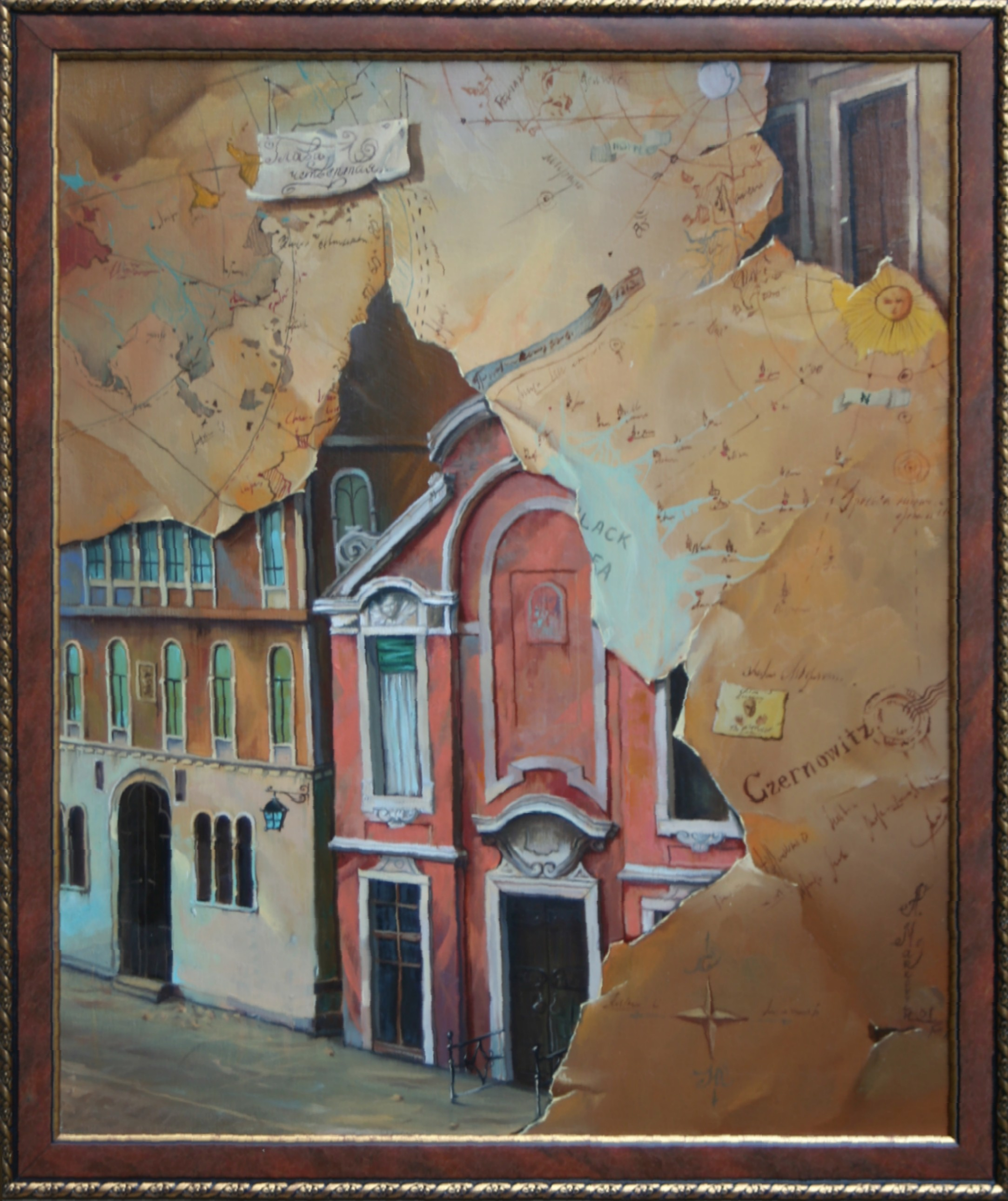 Day of the town, Chernivtsi 600 years.